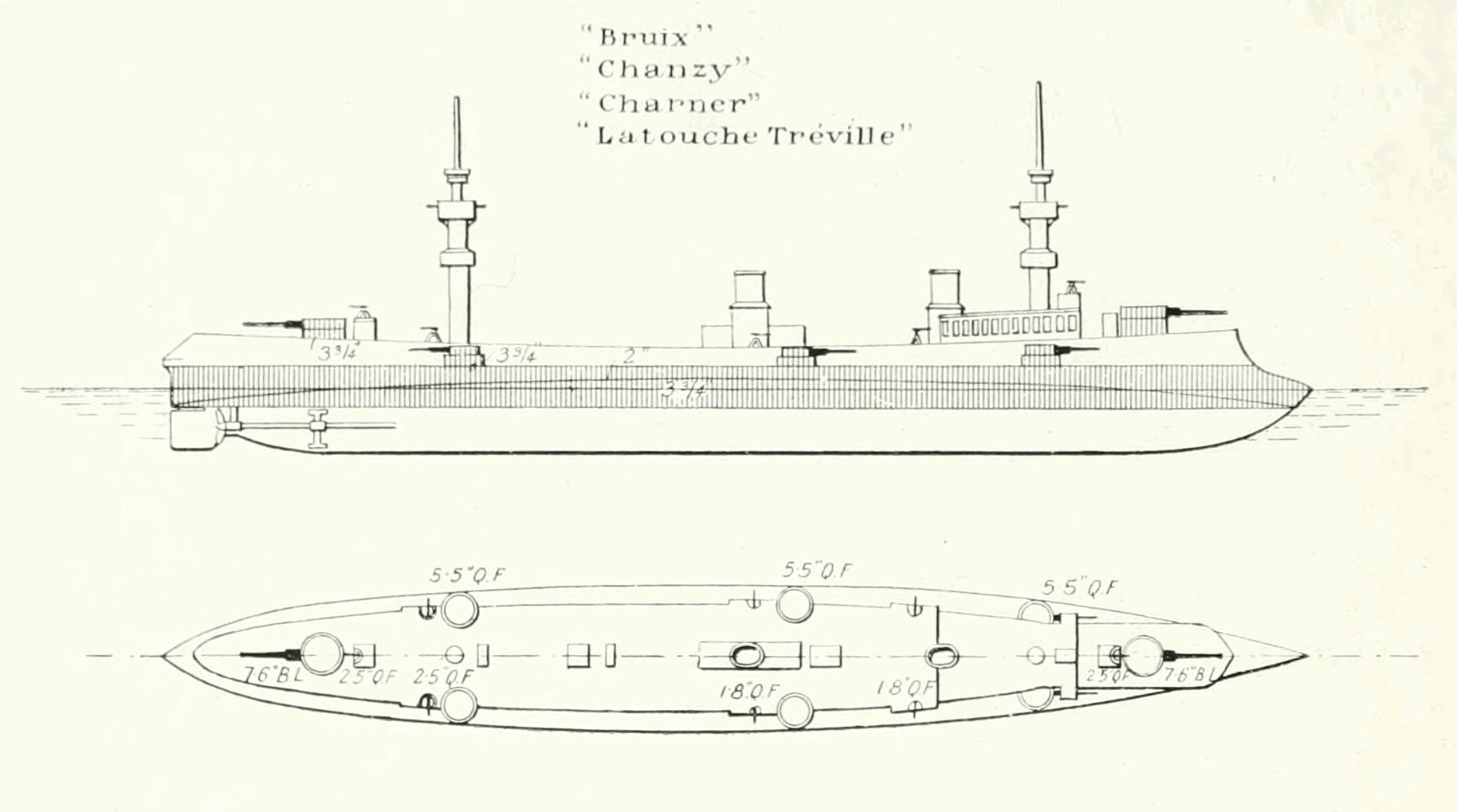 Simplified sketch of the French armoured cruiser Amiral Charner class.